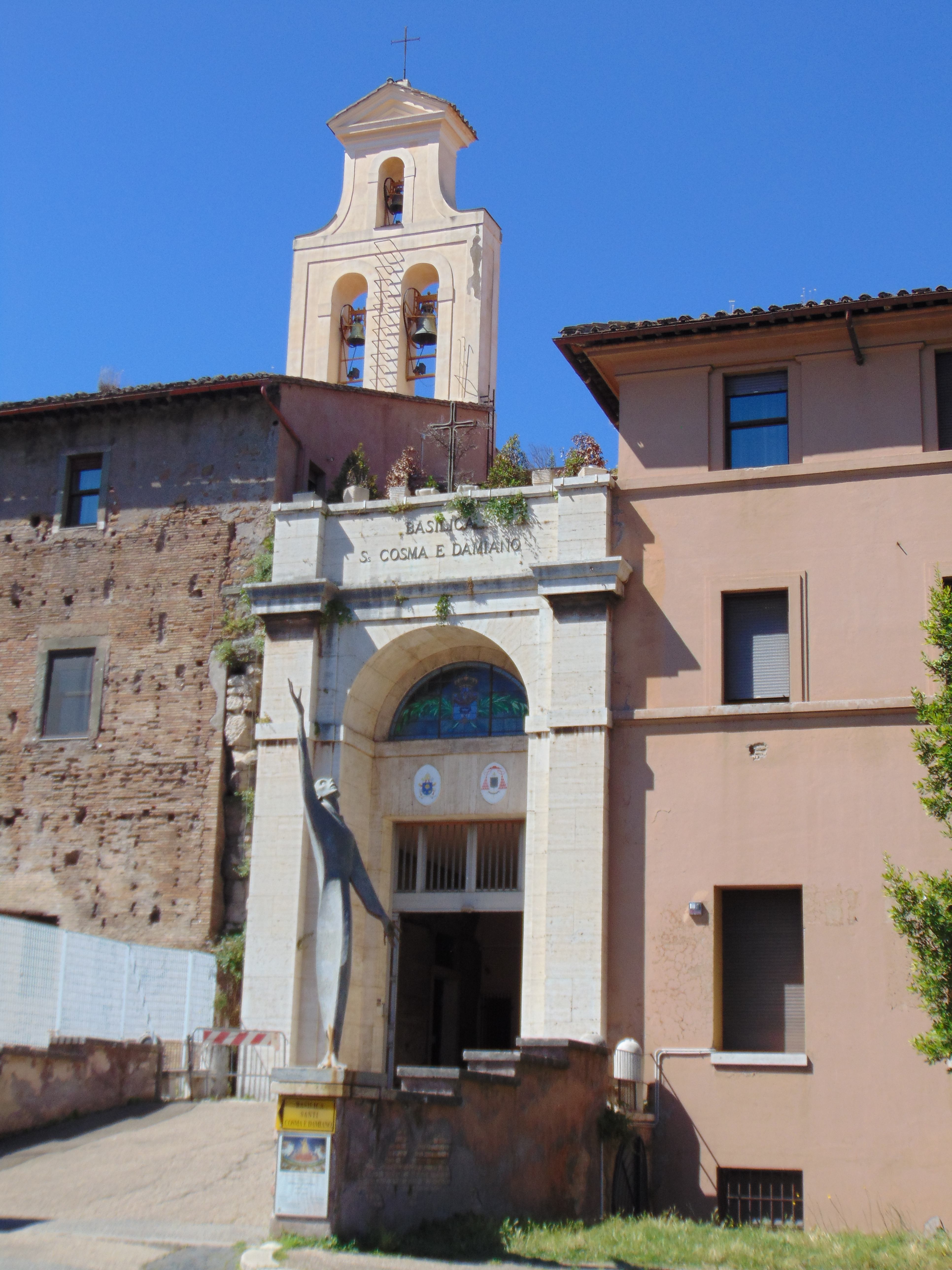 Basilica dei Santi Cosma e Damiano